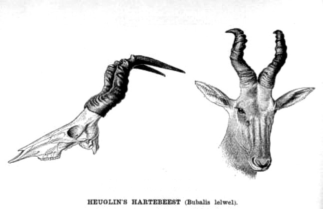 Drawing of Lelwel Hartebeest (Alcelaphus buselaphus lelwel), from "Records of Big Game", Rowland Ward